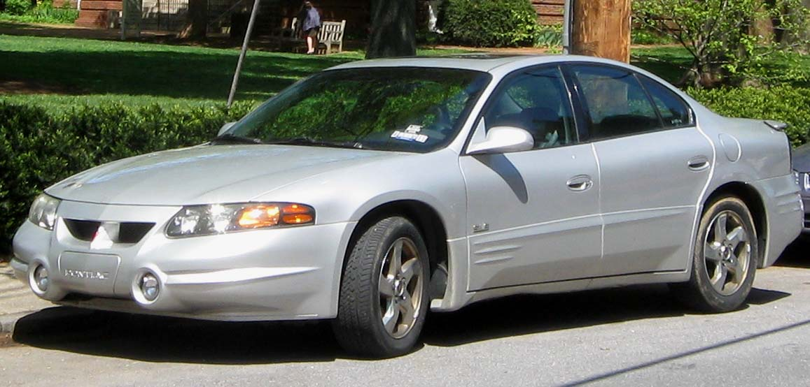 Pontiac Bonneville photographed in Annapolis, Maryland, USA.